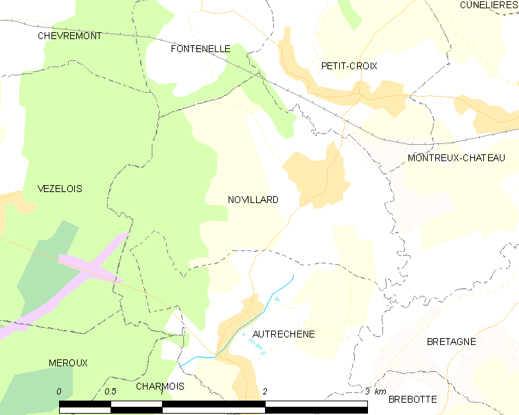 Map of French municipality Novillard